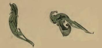 Stainton’s Natural History of the Tineina (1855–1873): Depressaria absynthiella shoots of Artemisia absinthium inhabited by larvae